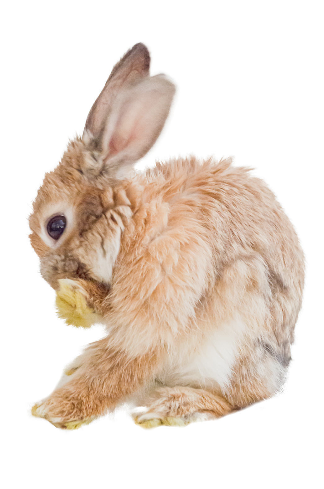 House rabbit grooming